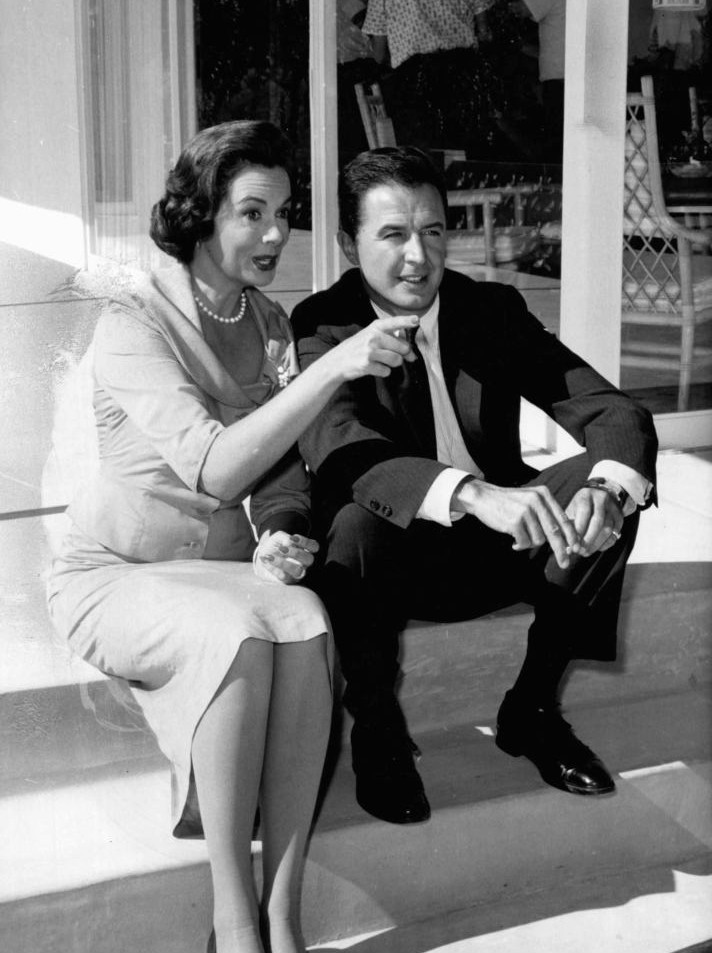 Photo of Dean Miller and Joanne Jordan from the daytime celebrity interview television program Here's Hollywood. The show aired on weekdays.